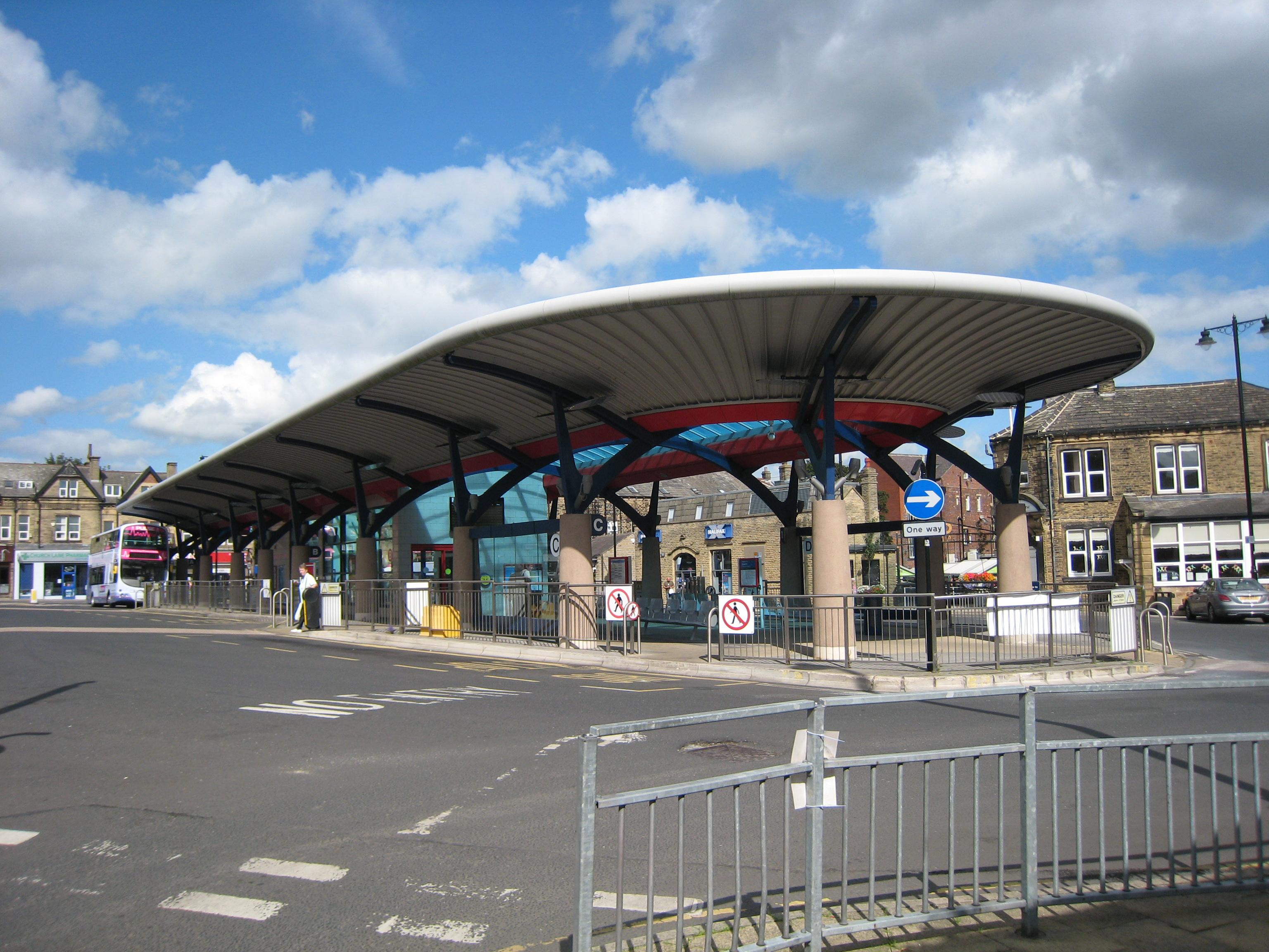 Pudsey Bus Station